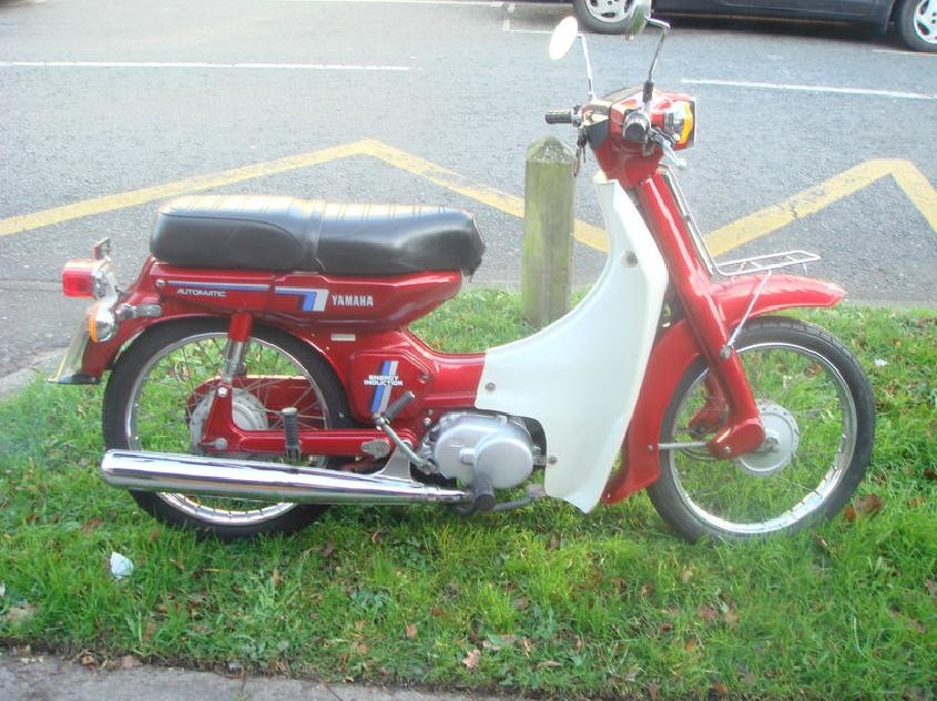 A 1986 Yamaha V50M